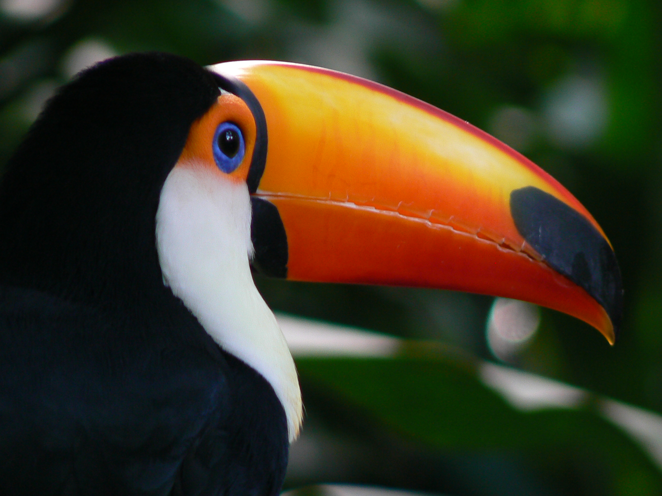 A Toco Toucan (Ramphastos toco). Photo taken at Parque das Aves, Brazil.